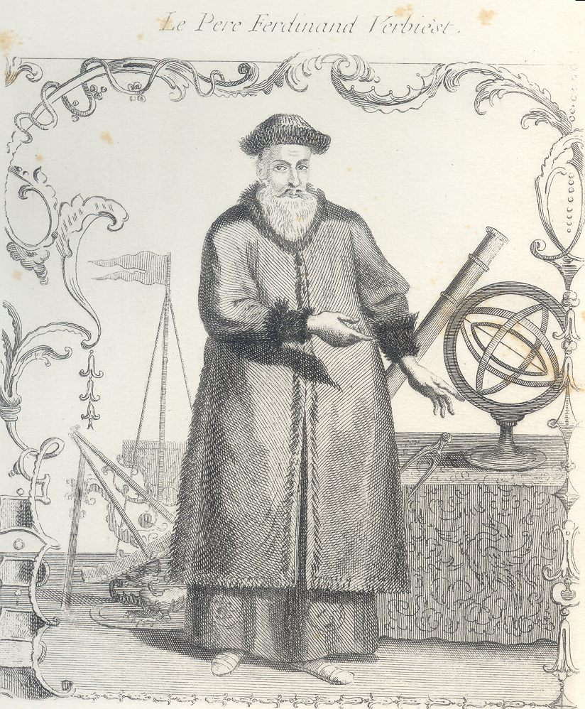 Ferdinand Verbiest(1623 - 1688), Belgian Jesuit missionary in China, in his mandarin attire.